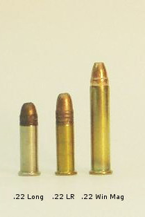 Edit version of 22_Long,_22_LR,_22_Winchester_Magnum_.JPG